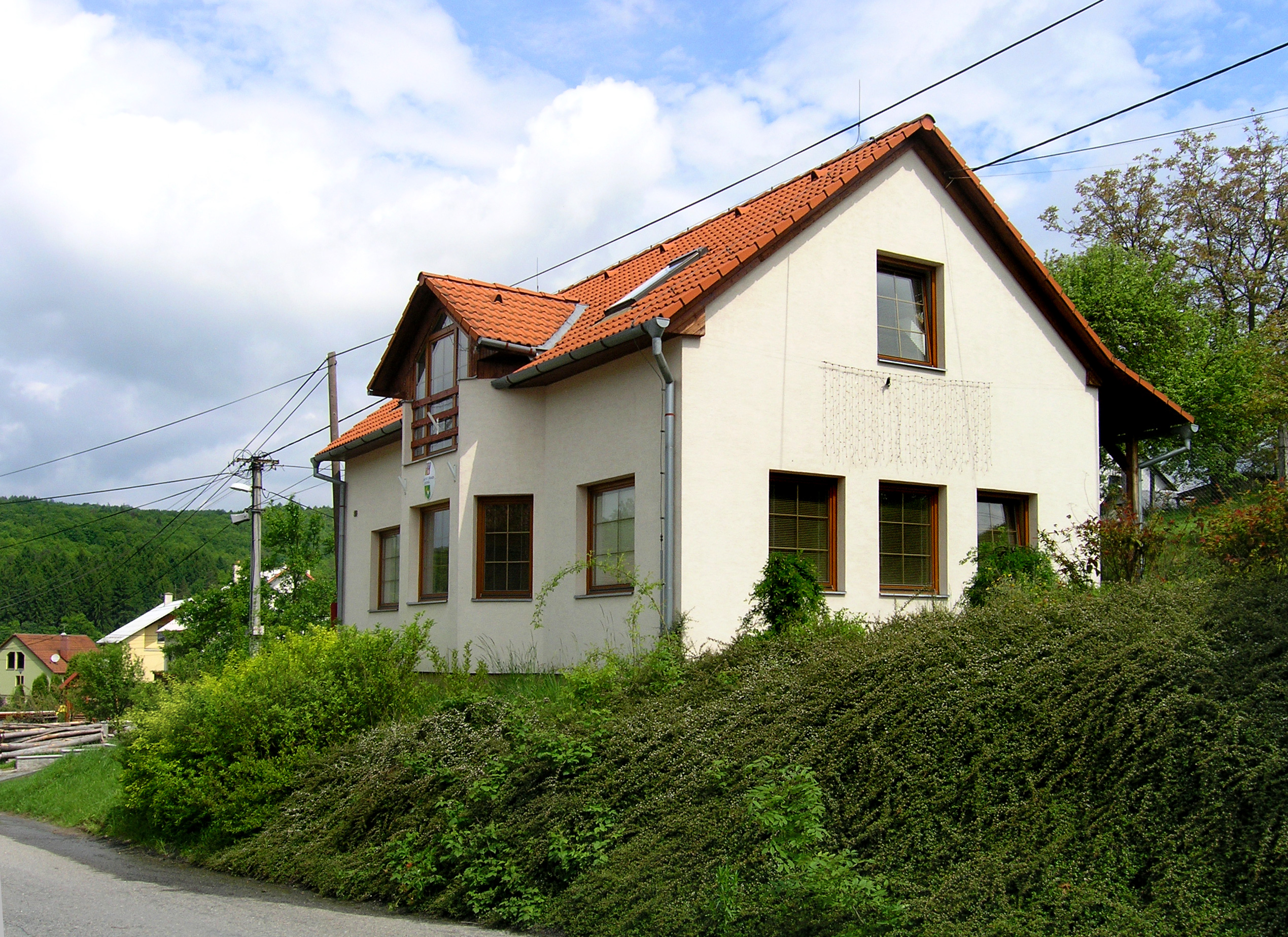 Municipal office in Dešná village, Czech Republic